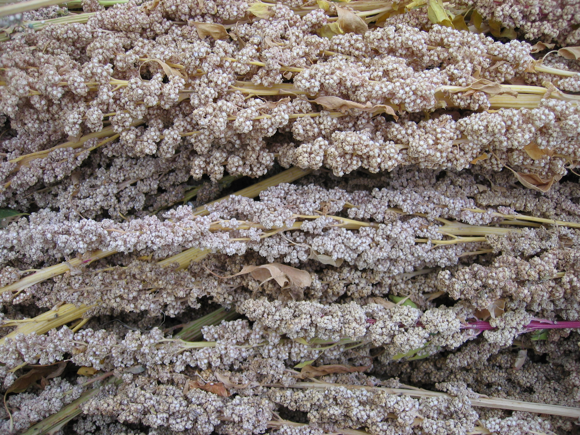 Dry quinoa (Chenopodium quinoa) ready for threshing, near Juliaca, Peru.